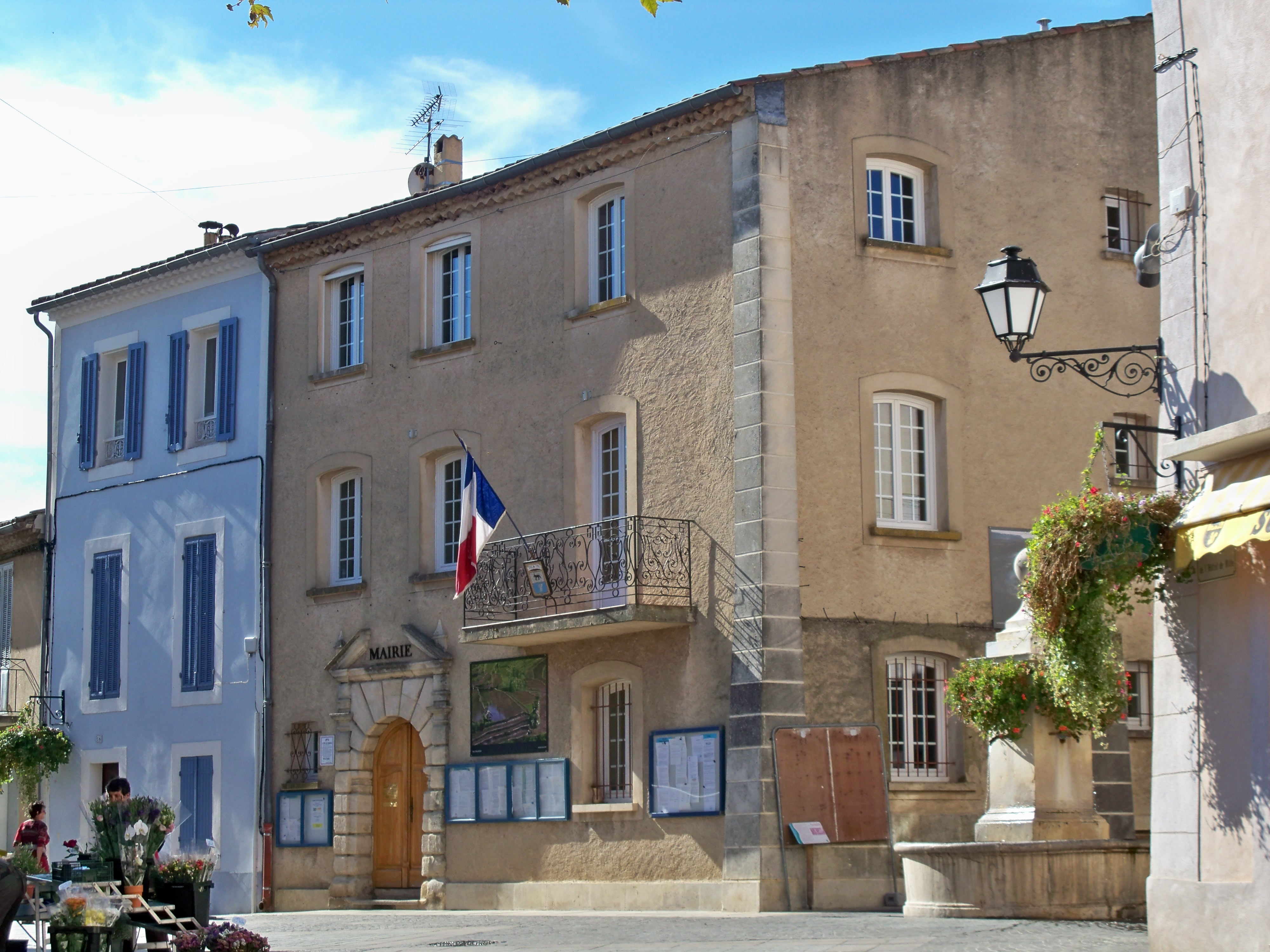 Gréoux town hall